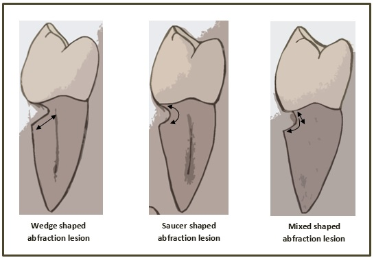 The following three images are ones I have created based on current and best available information regarding how abfraction lesions can appear on teeth. All lesions are depicted below the cement-enamel junction of the tooth, however this still remains theoretical as some people argue that abfraction can occur above/below and on the CEJ.